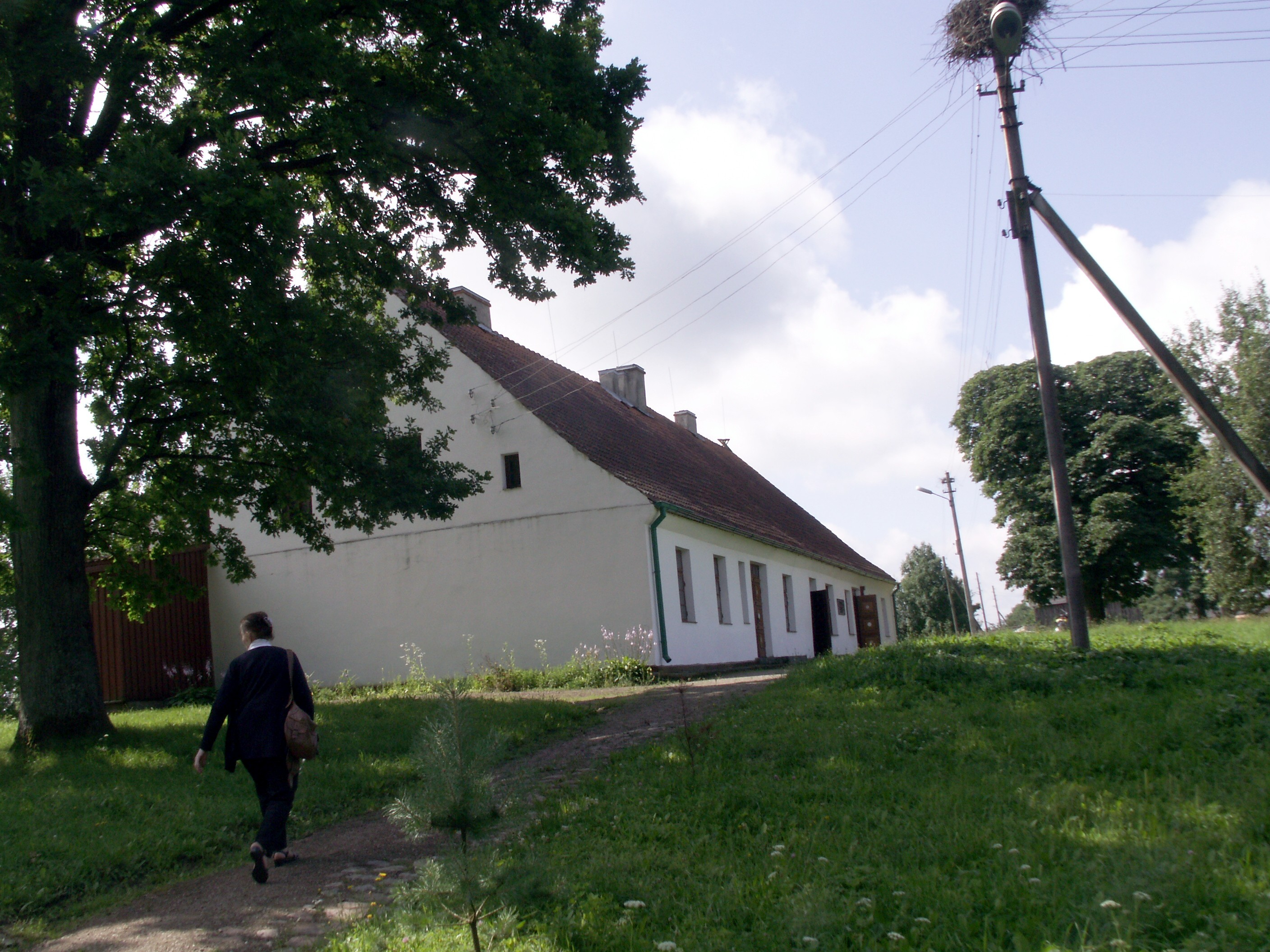 Chistye Prudy in Kaliningrad oblast. Museum of Kristijonas Donelaitis